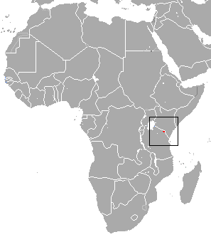 Kilimanjaro Mouse Shrew (Myosorex zinki) range